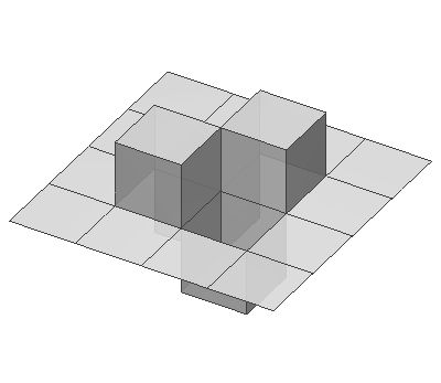 First iteration of 3D Koch quadratic type 2 fractal